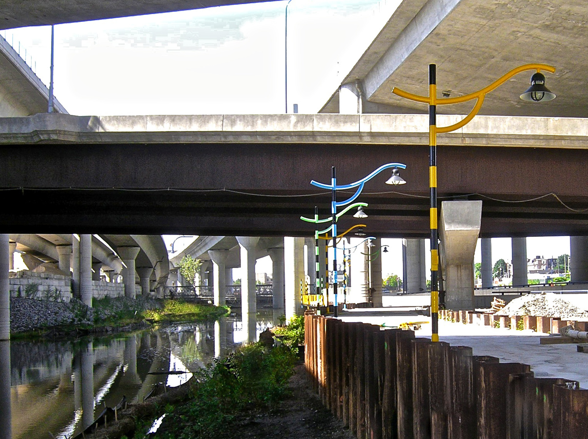 Opening up of Miller's River as part of Big Dig Highway work.